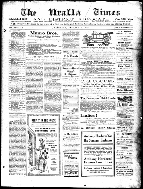 Front cover of the Uralla Times newspaper on 9 January 1915